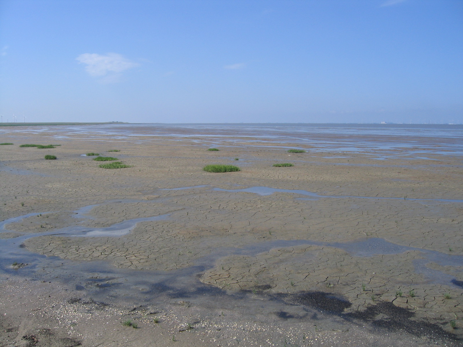 View over the mudflats of the Pilsumer Watt (part of the Wadden Sea) looking SW. Seen from the Leyhörn peninsula, East Frisia, Germany.